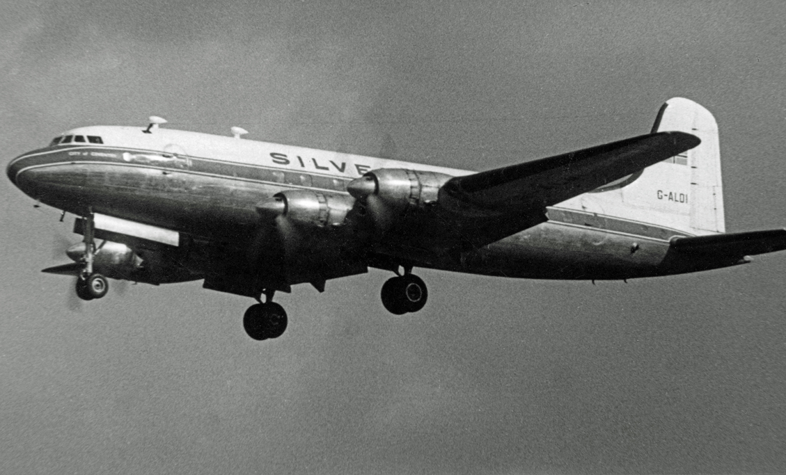 Handley Page HP.81 Hermes 4 G-ALDI "City of Coventry" of Silver City Airways landing at Manchester Airport in 1962.